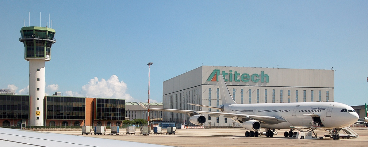 Naples 2010